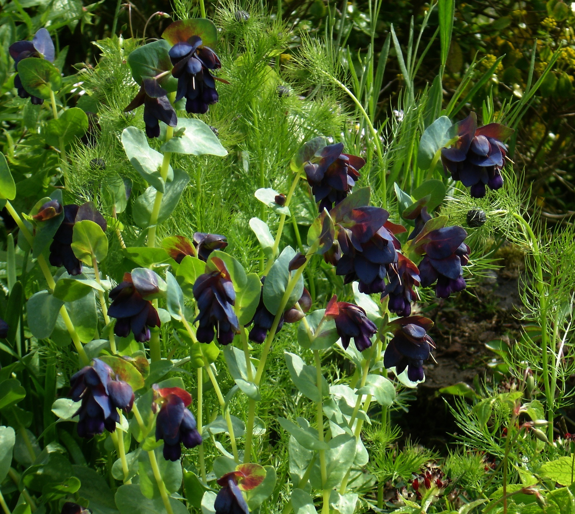 I can never get enough of this plant. I know it's been done to death by the designers but it is terrific. The four shots here are all from seed collected from a single plant so there's an interesting range of shades in the bracts. This wonderful lustrous deep maroon purple is touched with an almost iridescent violet bloom.